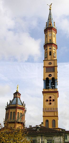 Campanile of the chiesa di Nostra Signora del Suffragio (Our Lady of Suffrage's Church), Turin (Italy)